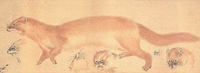 Weasel, attributed to Maruyama Okyo, Homma Museum of Art, Sakata, Yamagata, Japan